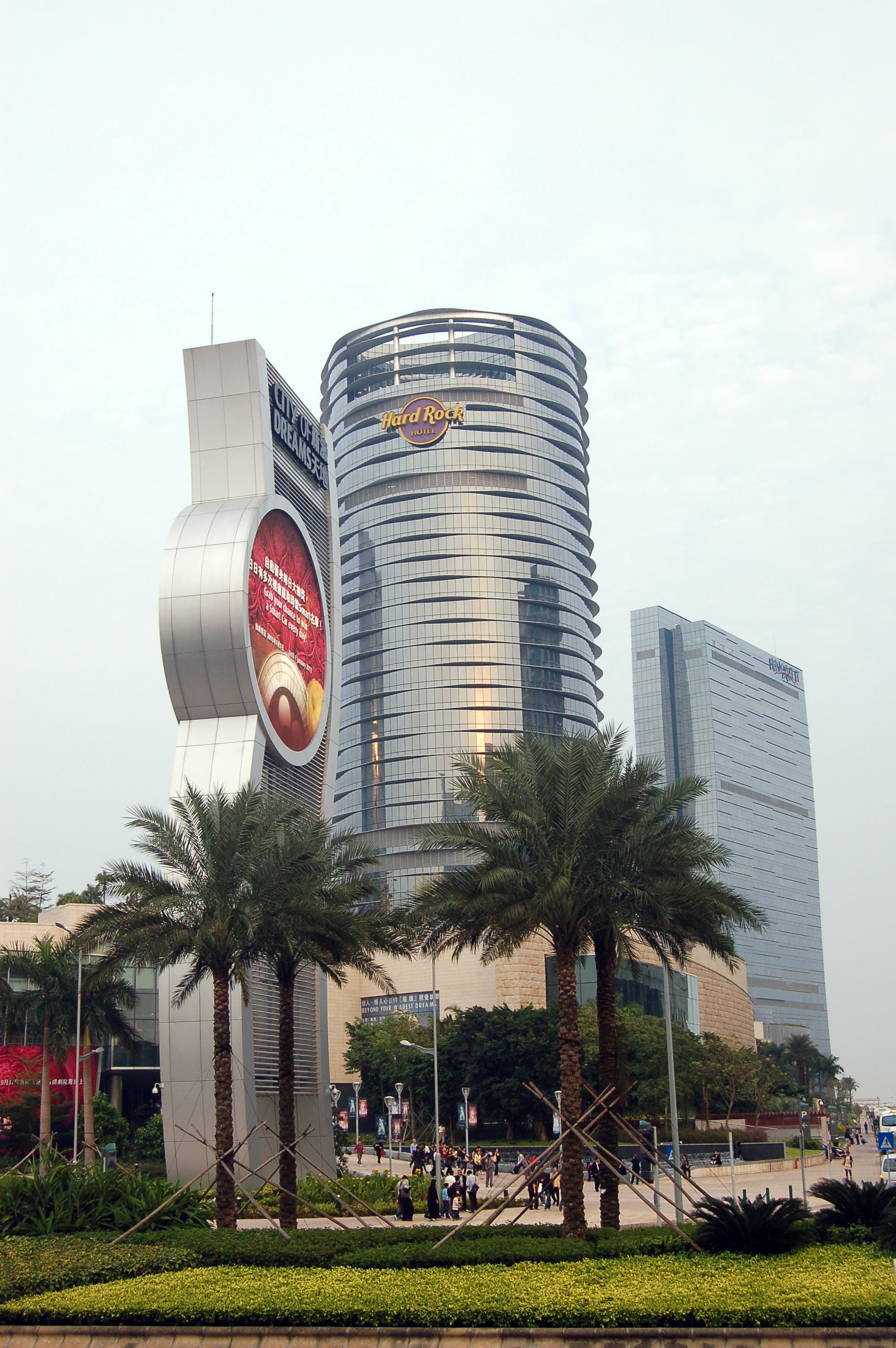 Hard Rock Hotel, Macau